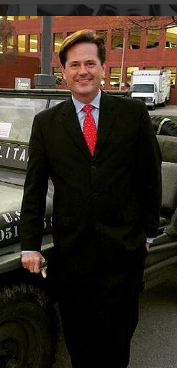 Steve Bieda at Warren Tree Lighting Parade 2017